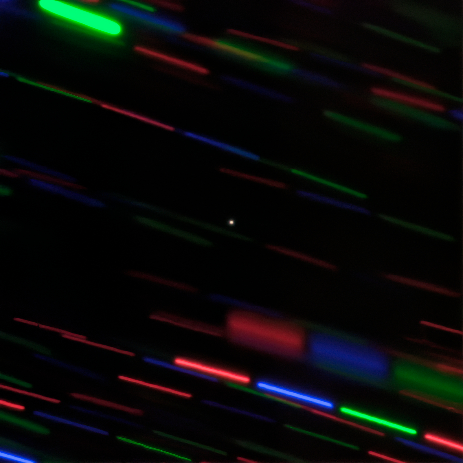 International Gemini Observatory image of 2020 CD3 (center, point source) obtained with the 8-meter Gemini North telescope on Hawaii’s Maunakea. The image combines three images each obtained using different filters to produce this color composite. 2020 CD3 remains stationary in the image since it was being tracked by the telescope as it appears to move relative to the background stars, which appear trailed due to the object’s motion.